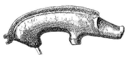 Black & white drawing of the copper alloy Guilden Morden boar